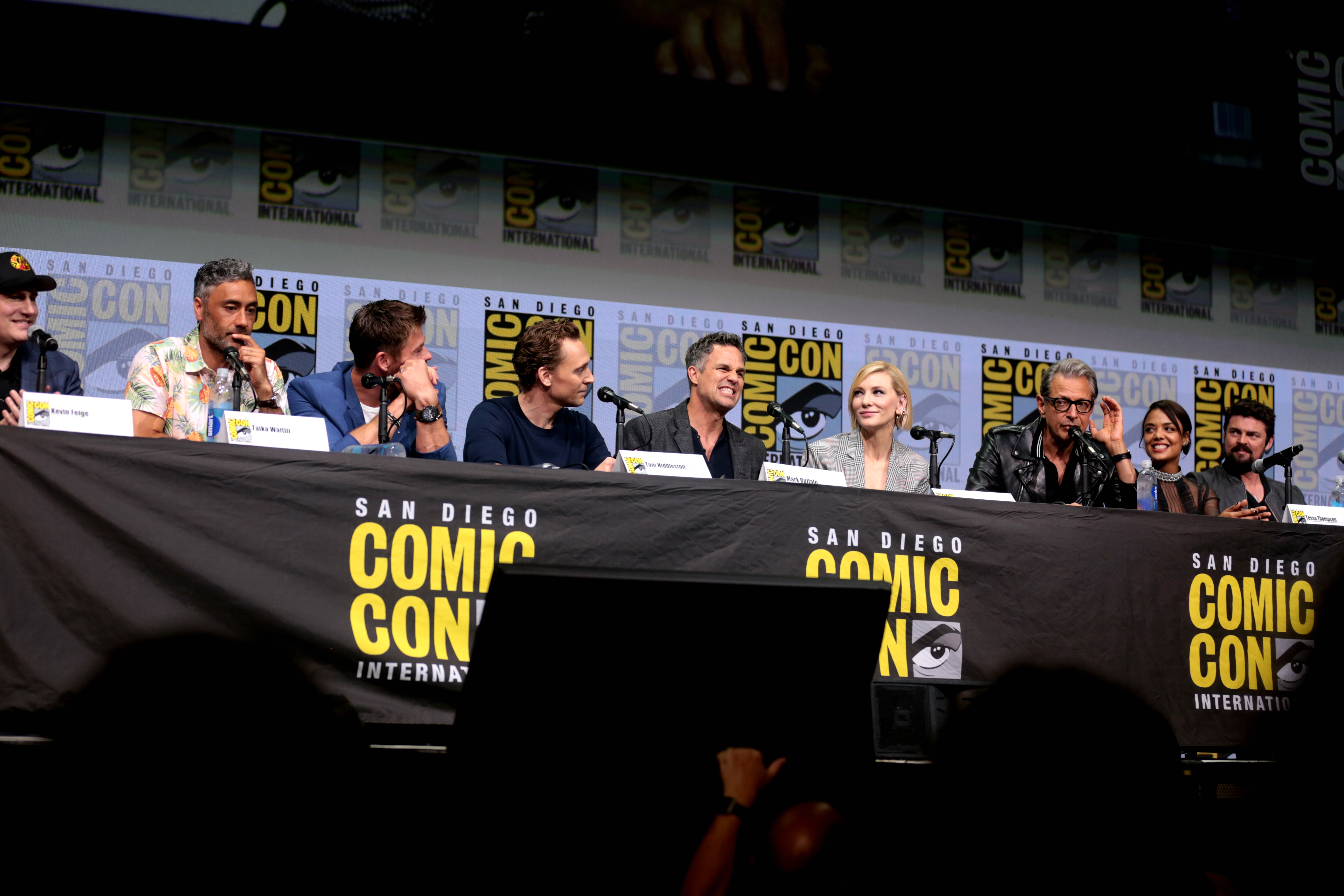 Kevin Feige, Taika Waititi, Chris Hemsworth, Tom Hiddleston, Mark Ruffalo, Cate Blanchett, Jeff Goldblum, Tessa Thompson, and Karl Urban speaking at the 2017 San Diego Comic Con International, for "Thor: Ragnarok", at the San Diego Convention Center in San Diego, California.